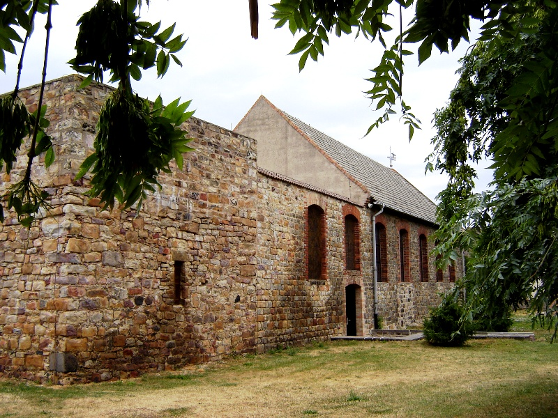 Church in Gommern-Ladeburg (Saxony-Anhalt)